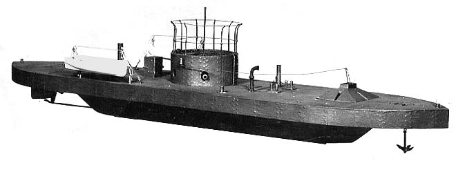 The model of a monitor ship